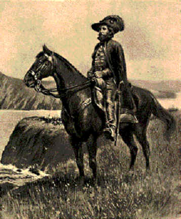 Juan Bautista de Anza, from a portrait in oil by Fray Orsi in 1774